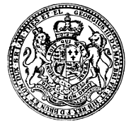 Seal of the Province of New York from 1767 until independence.